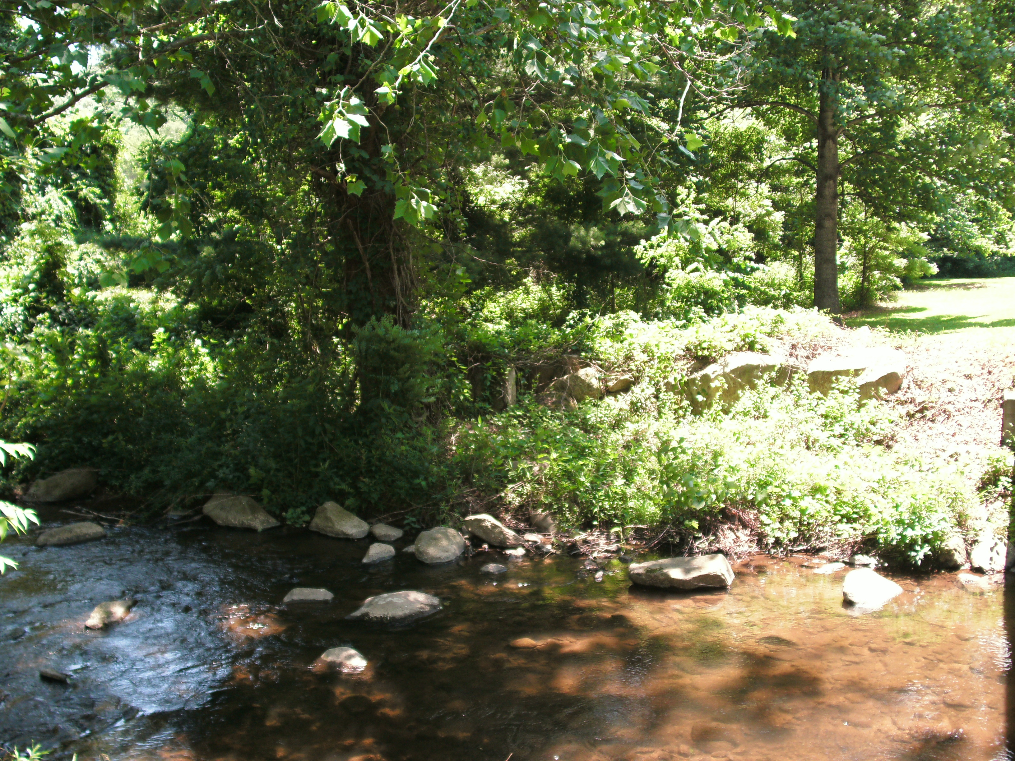 Image I took for Wikipedia